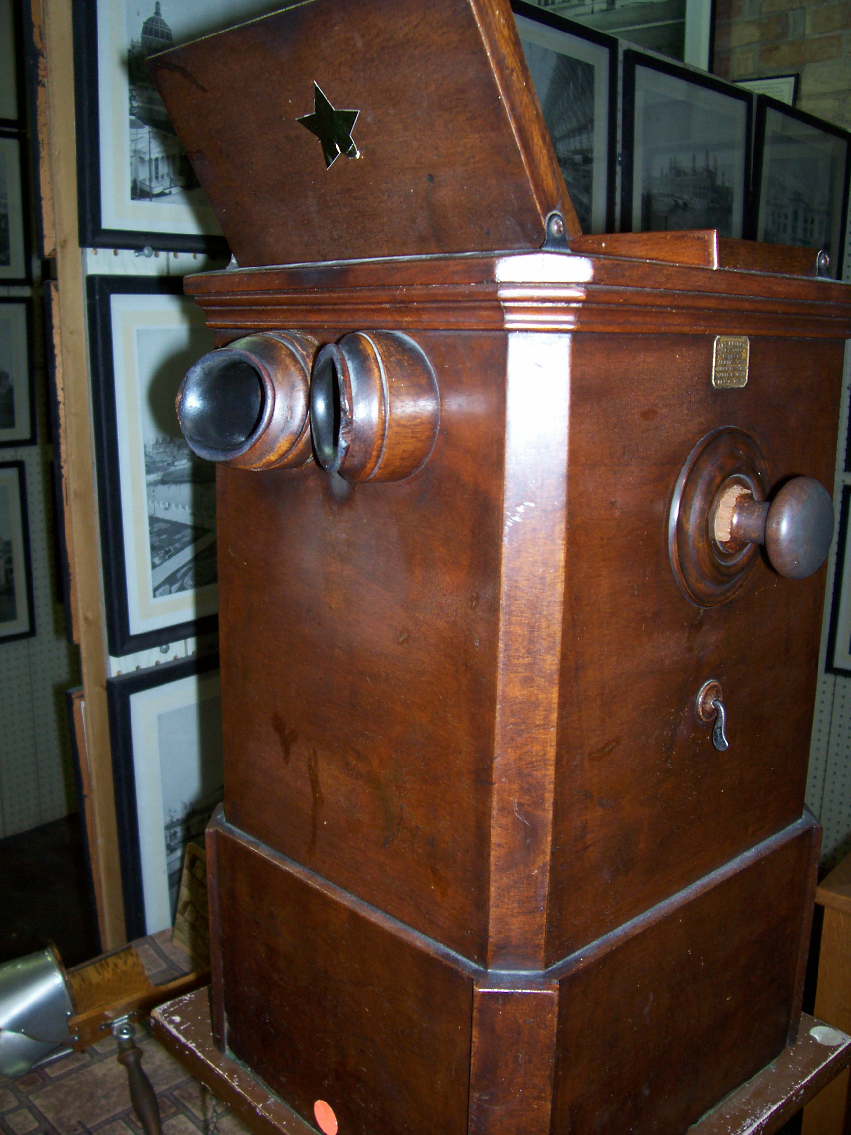 An 1893-era stereoscope probably used at the 1893 World's Columbian Exposition. Taken at the Christopher Columbus museum in Columbus, Wisconsin, USA. A description card next to the device says "This stereopticon 3-D viewer from the WCE is made of cherry wood. By looking through the stereopticon a person can see 3-D images of various scenes, buildings, and images from the 1893 World's Columbian Exposition. It has the capacity to server two people at one time." ... "Next to the stereopticon is a hand-held viewer."